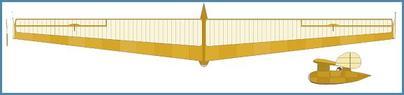 Kupper Ku-2 Uhu